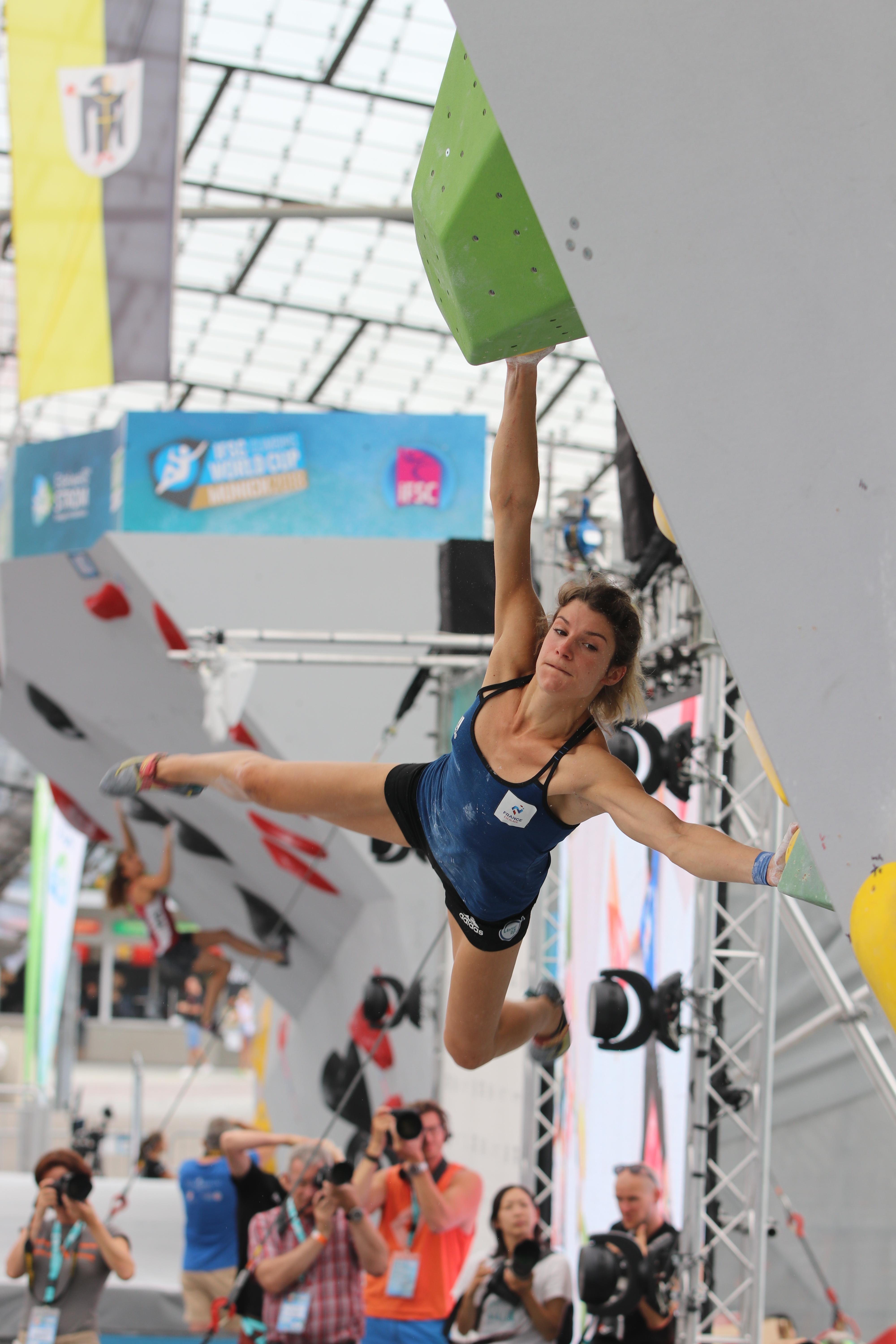 Boulder Worldcup 2018, Final Event in Munich 2018-08-18, Semi-Finals.